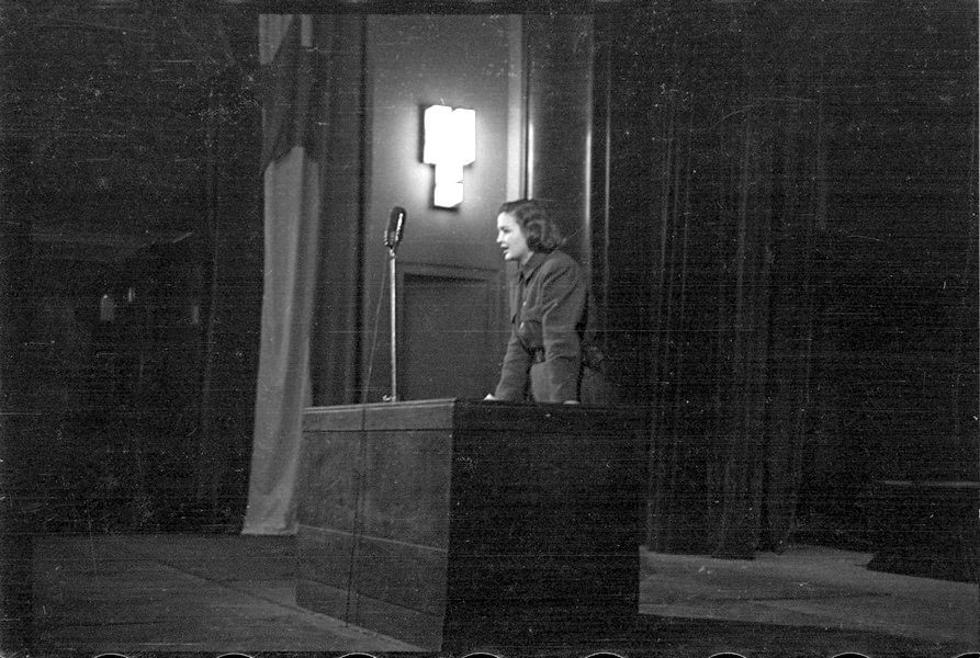 Brana Perović is a Serb politician